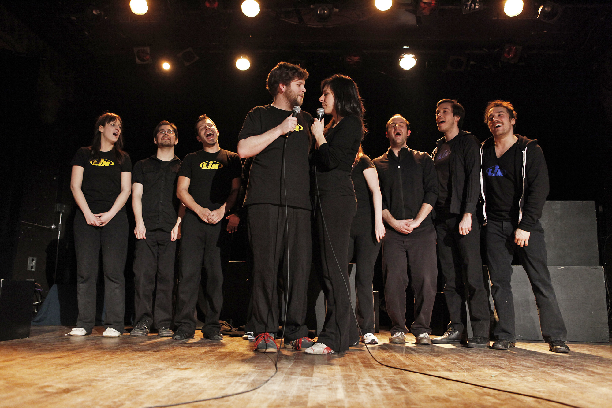 (Anne-Elisabeth Bossé, Alexandre Cadieux, Mathieu Bouillon, Didier Lambert, Delphine Bienvenu, Martin Boily, Patrick Dupuis, François Bernier). The Ligue d'improvisation montréalaise (LIM) is a league of improvisational theater based in Montreal, Quebec, Canada.